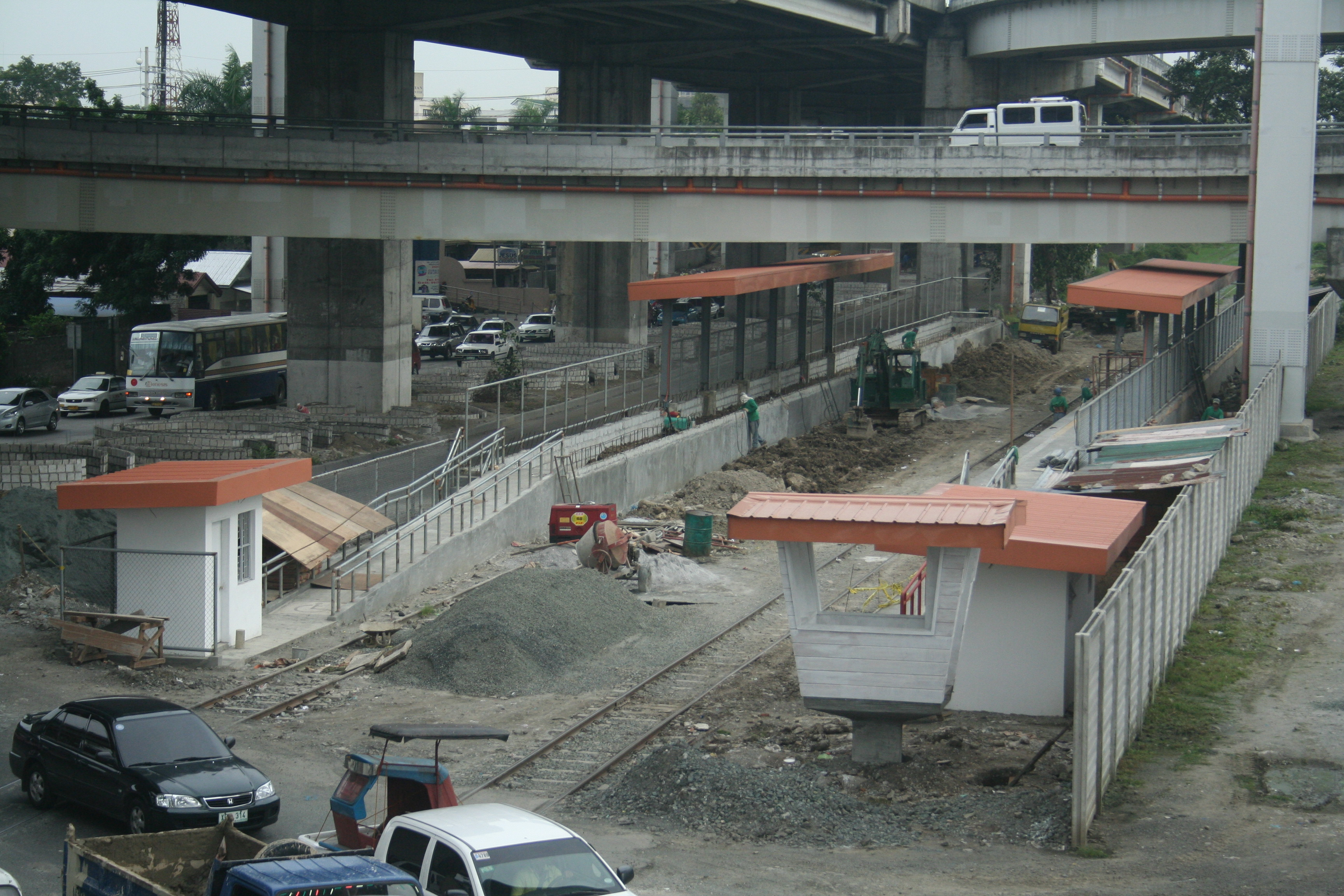 Overhead view of a Nichols (Bonifacio-Villamor) railway station under construction.